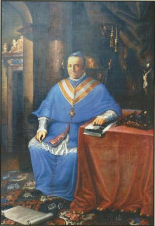 Portrait of bishop Bonaventura Codina, bishop of Las Palmas de Gran Canaria